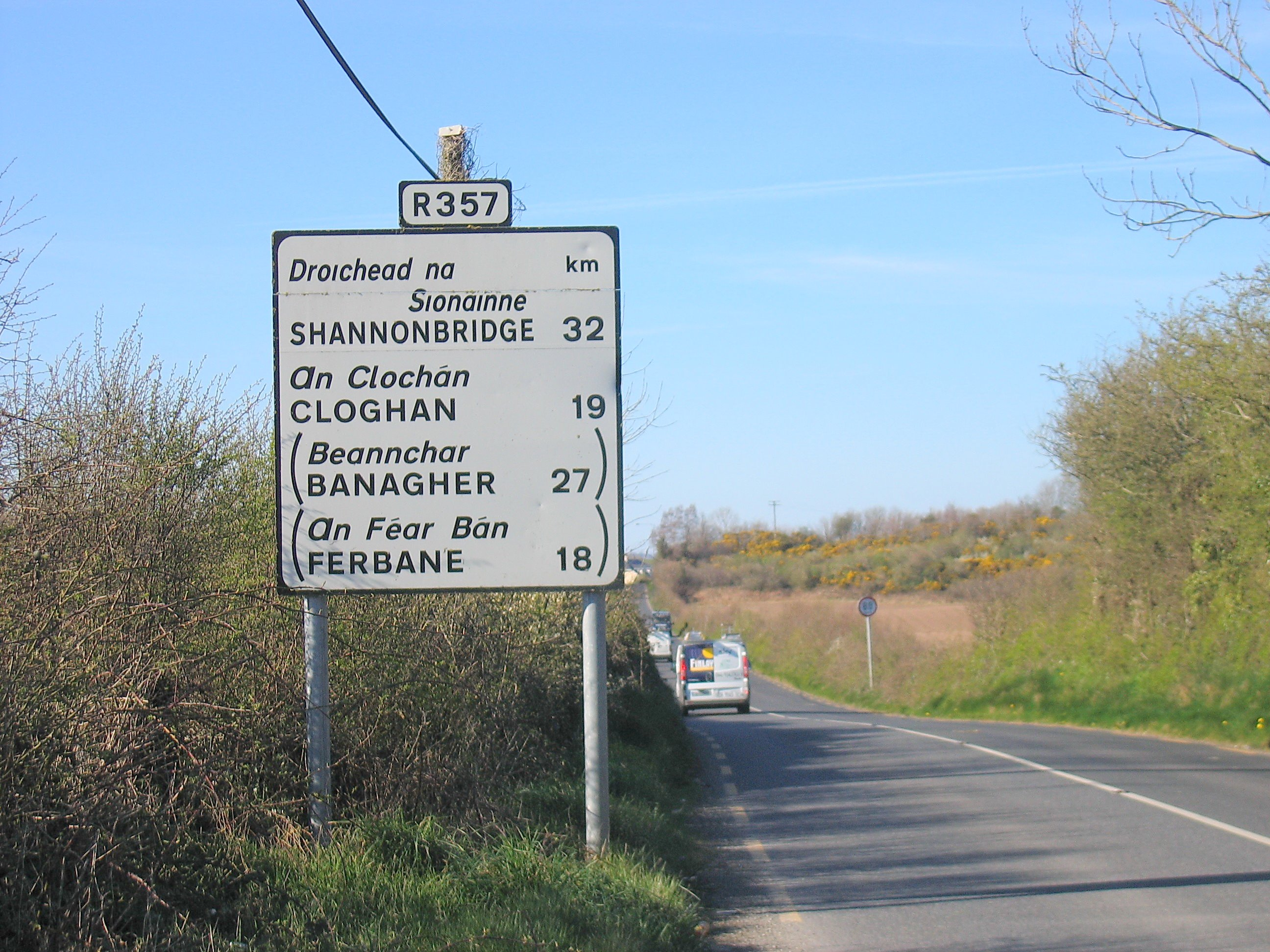 Sign for the R357 road, County Offaly, Ireland.